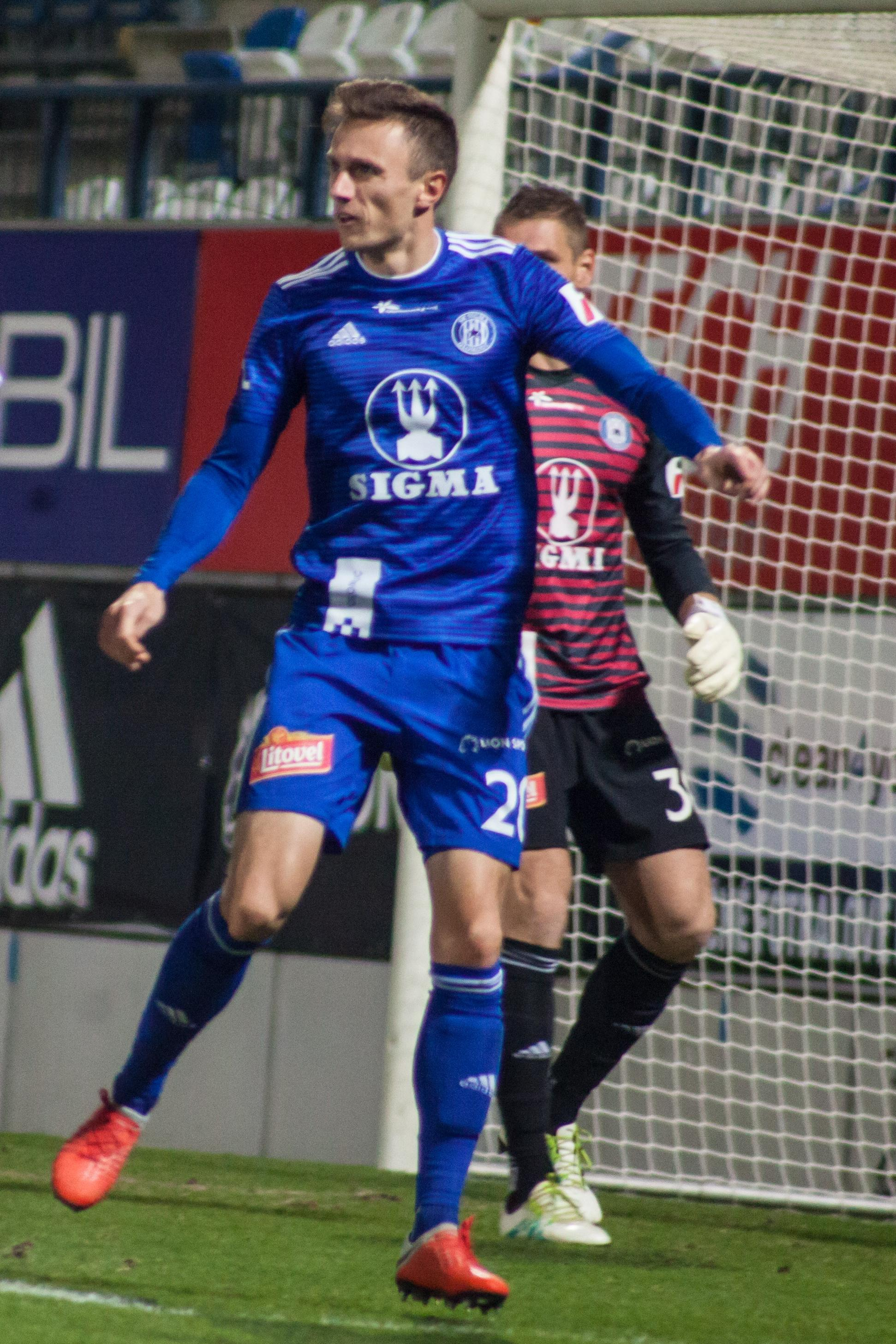 Šimon Falta At Czech cup (MOL Cup) match SK Sigma Olomouc-FC Fastav Zlín played on 15 November 2018